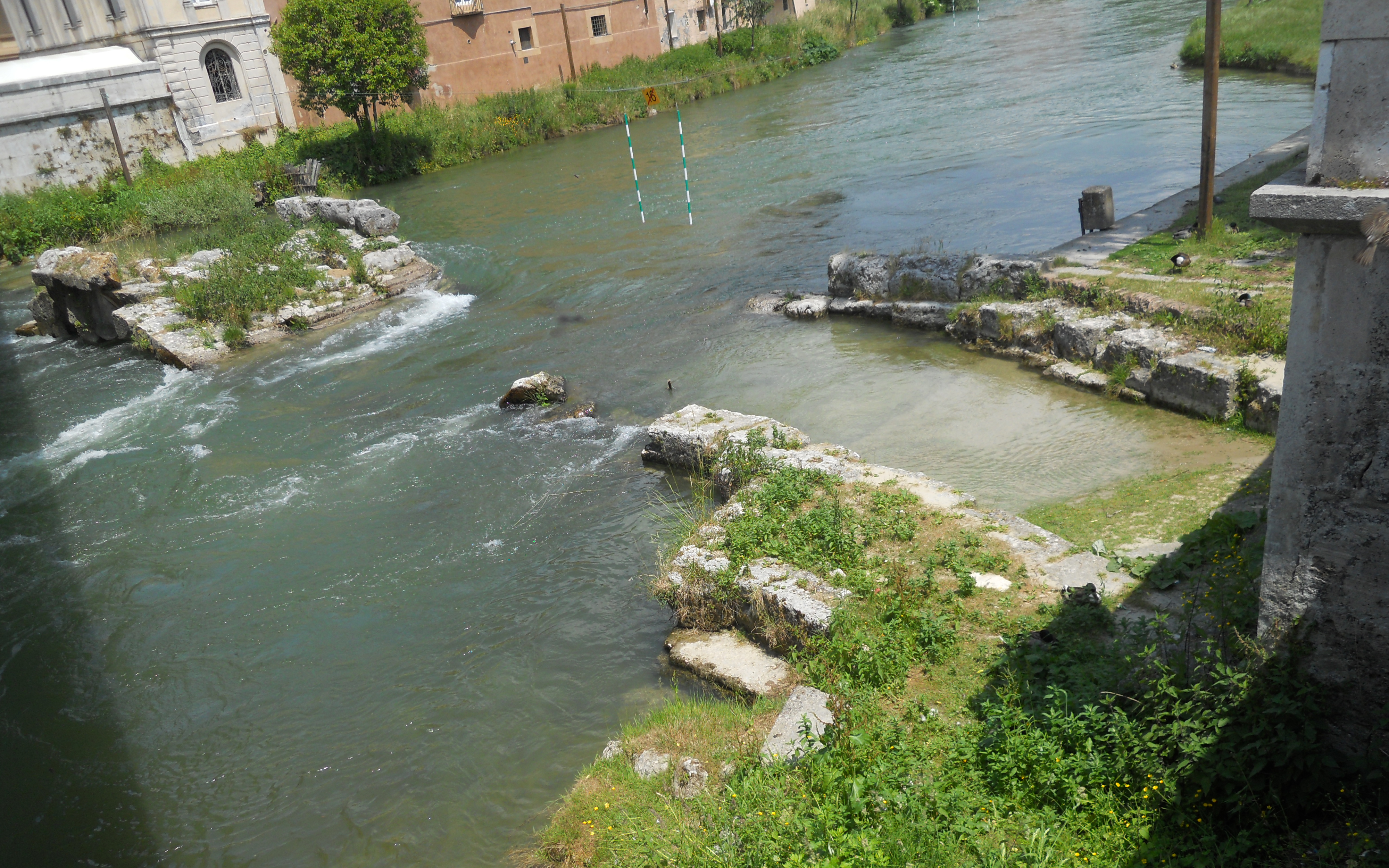 Closeup of the ancient Roman bridge of Rieti, Italy